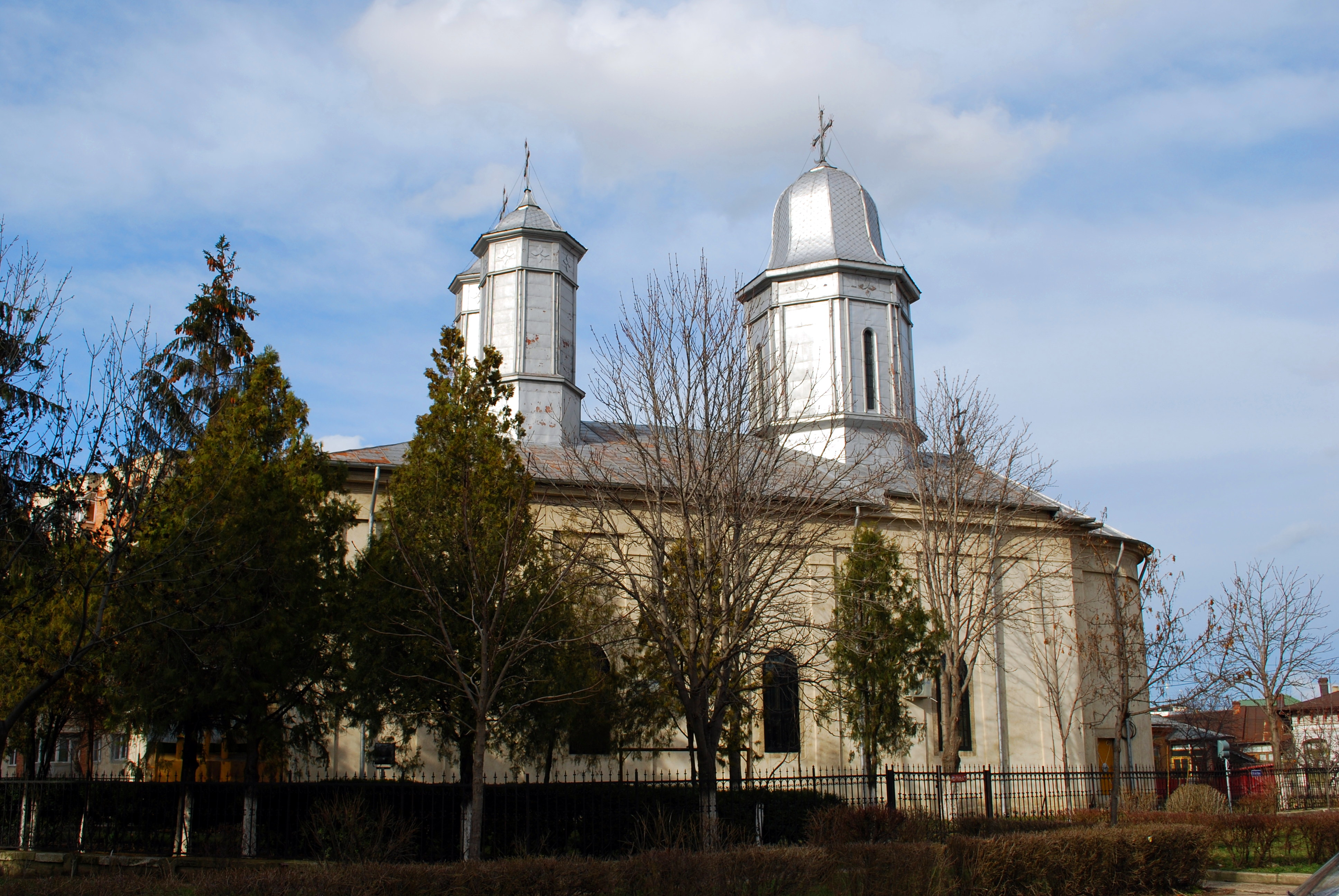 The "Greci" ("Neguţători") Romanian orthodox church in Buzău, Romania